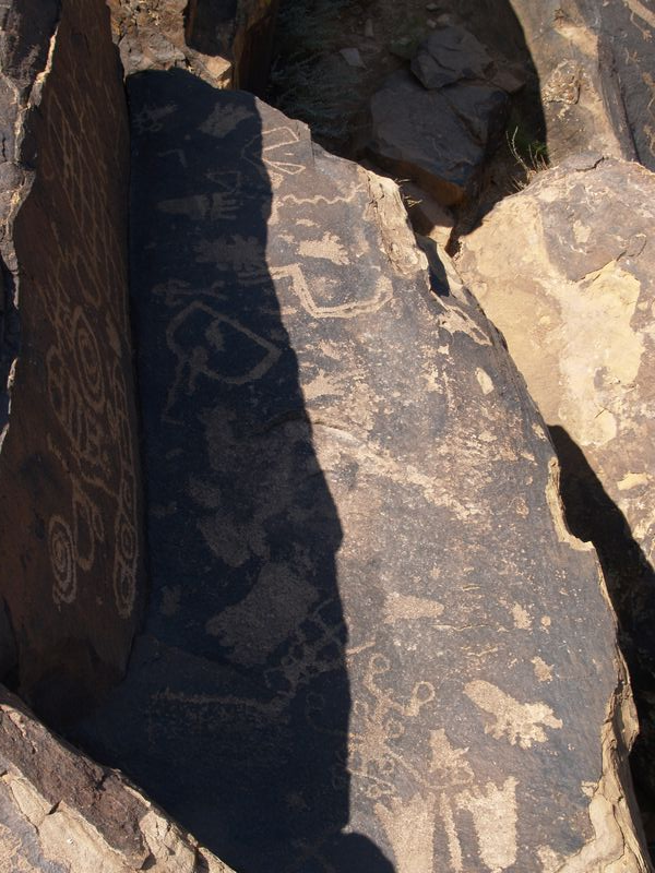 This group of petroglyphs is just one of over 200 found in the Santa Clara River Reserve, west of St. George, Utah.